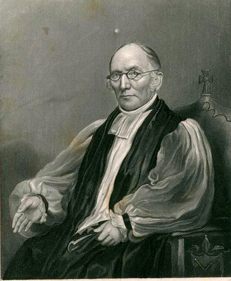 Cropped version of File:Thomas Church Brownell (1799-1865) - card.jpg